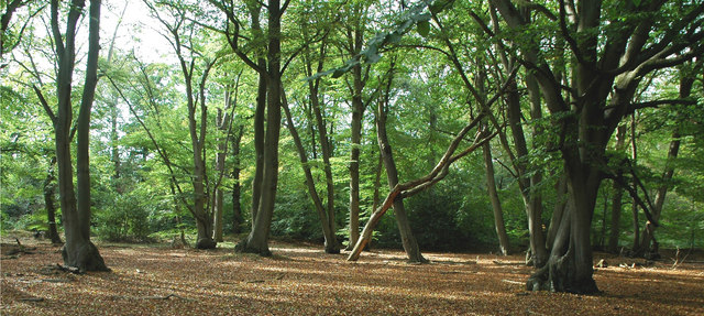 Burnham Beeches In Egypt Woods, part of Burnham Beeches, Buckinghamshire.